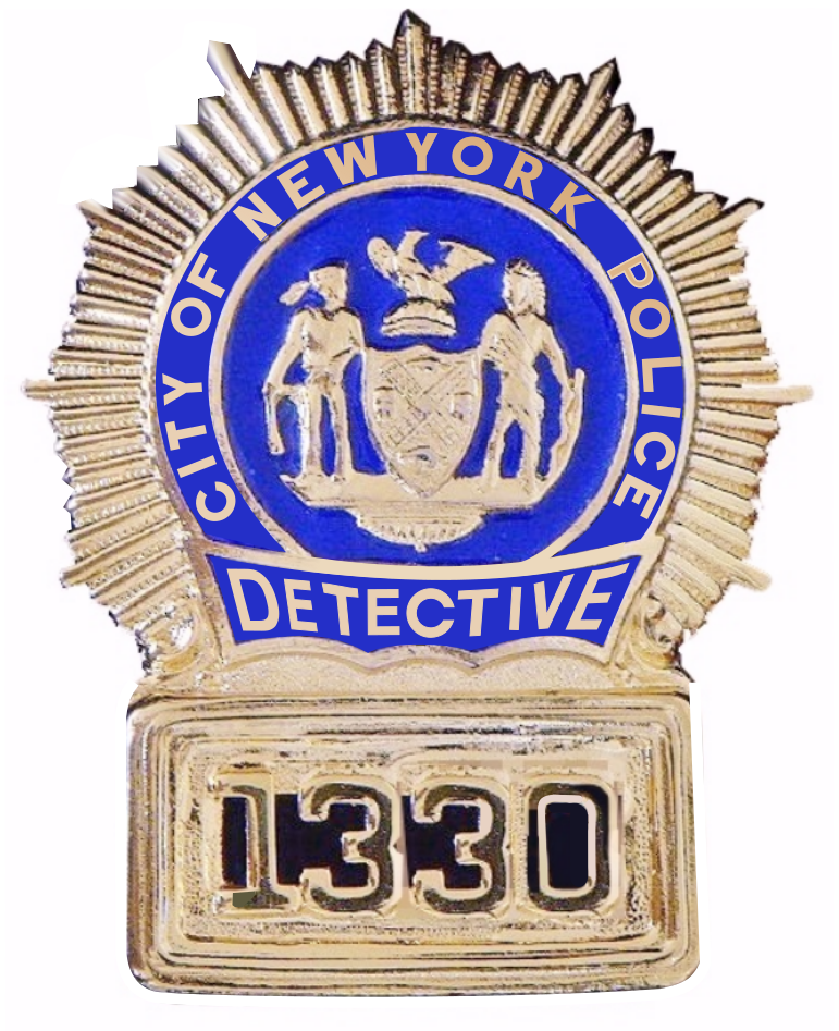 NYCPD detective badge